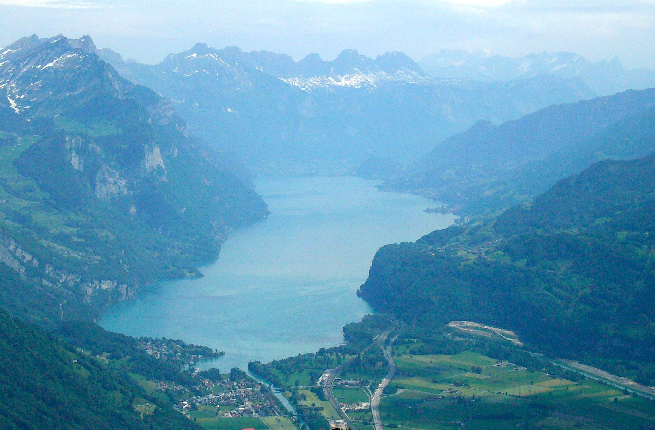 Kerenzerberg above Walensee is the settlement on the rock standing out on the southern shore of the lake, here seen from West and right on the image. Regarding flow direction of the lake it would be the left shore...